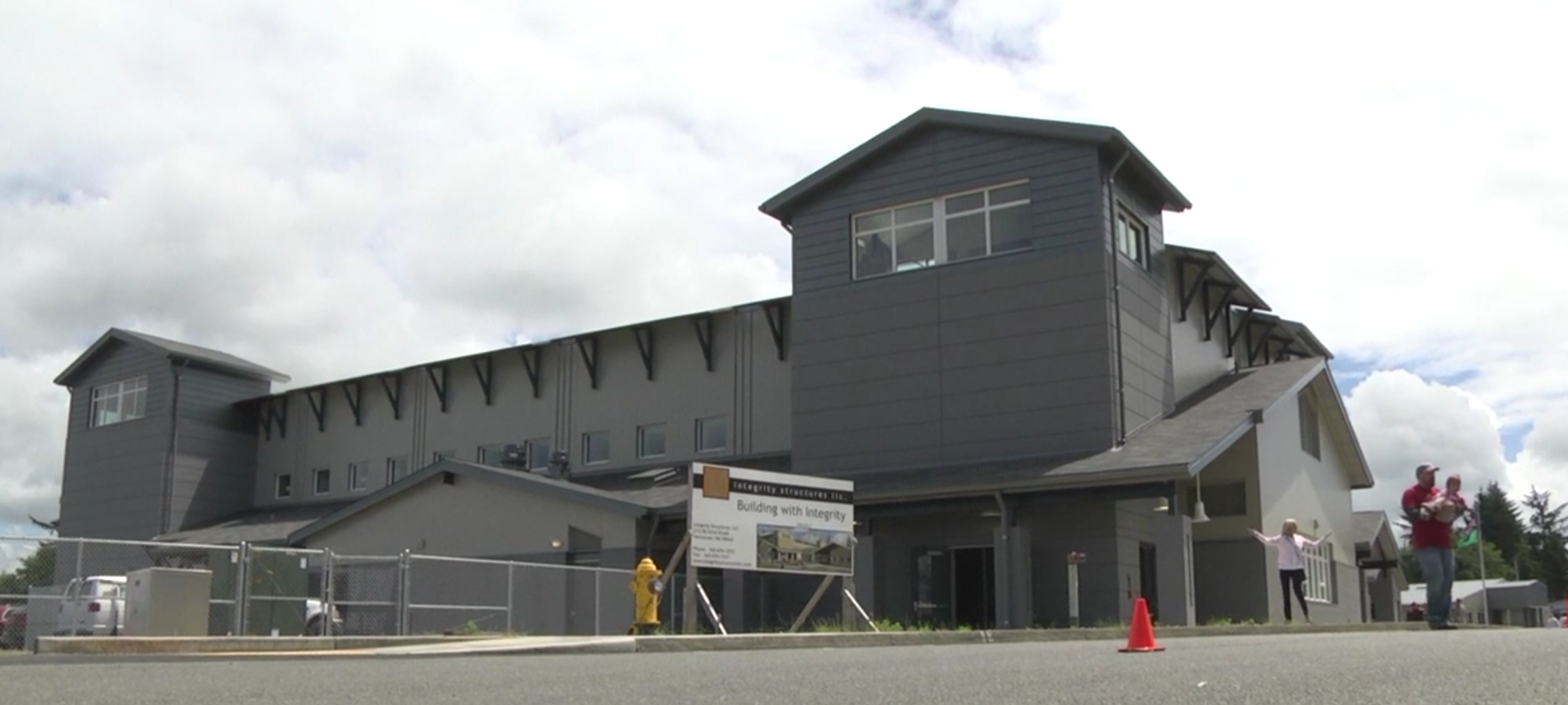 Exterior view of Ocosta Elementary School captured from video frame of US Army documentation of the Cascadia Rising 2016 exercise